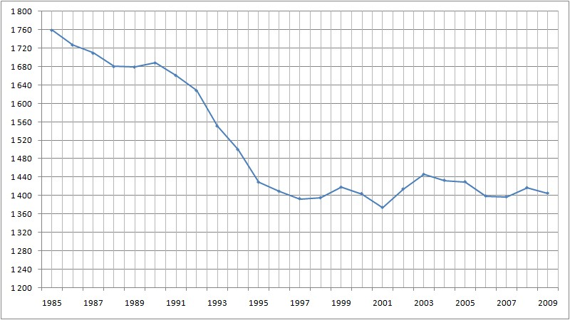 This diagram shows changes in population of Vágur since 1985 for 2009. It's made in Microsoft Excel 2007 program.